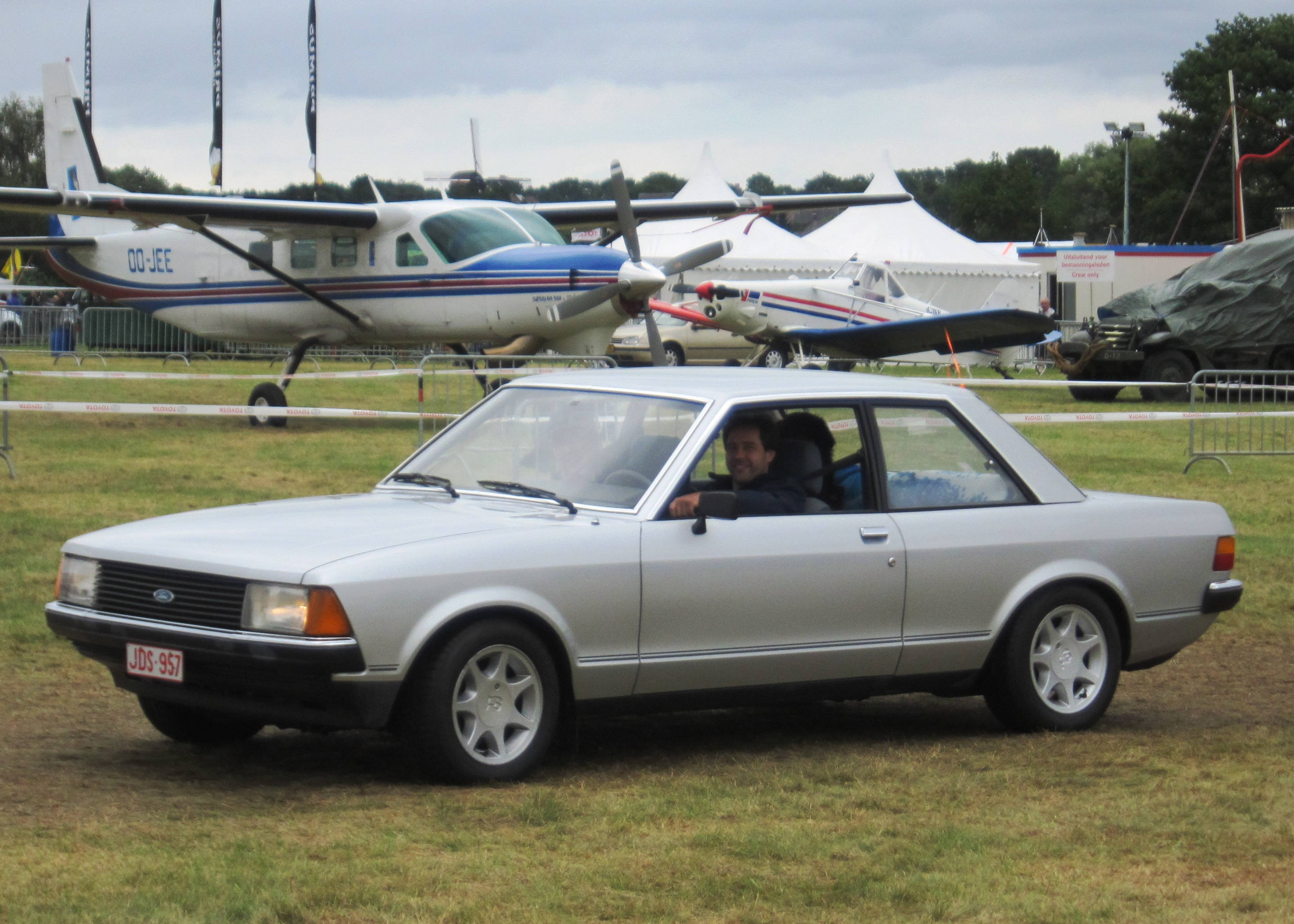 Ford Granada MK II 2-door (ca 1979)